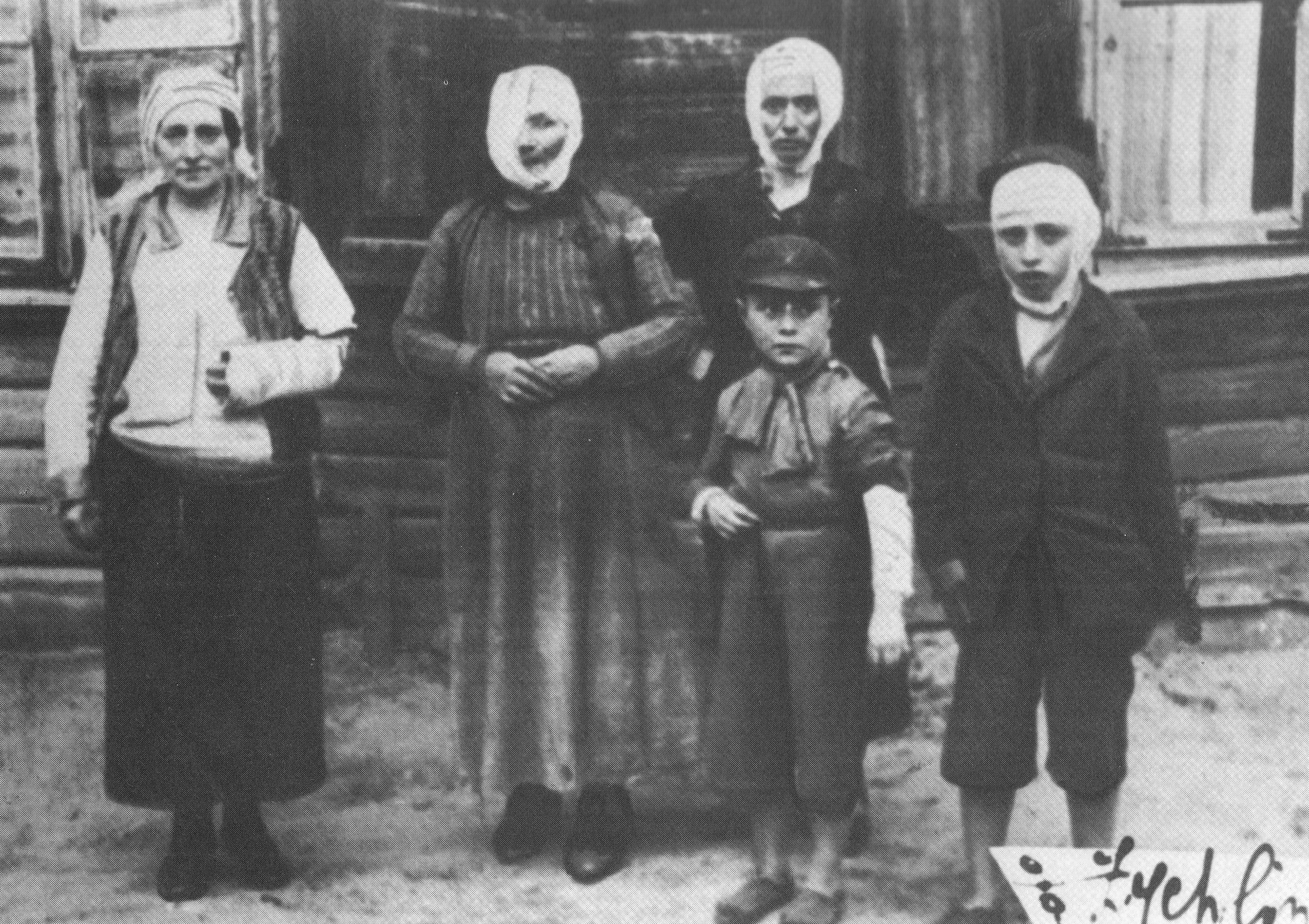 Victioms of a pogrom in Mińsk Mazowiecki in June 1936